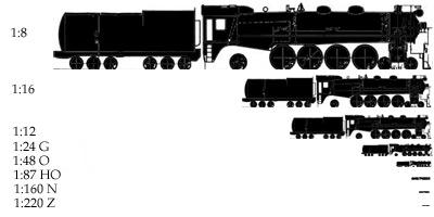 Main train scales diagram